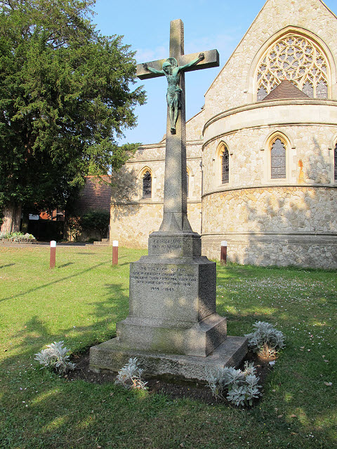 War monument outside Holy Trinity parish church, Southend Crescent, Eltham, London SE9